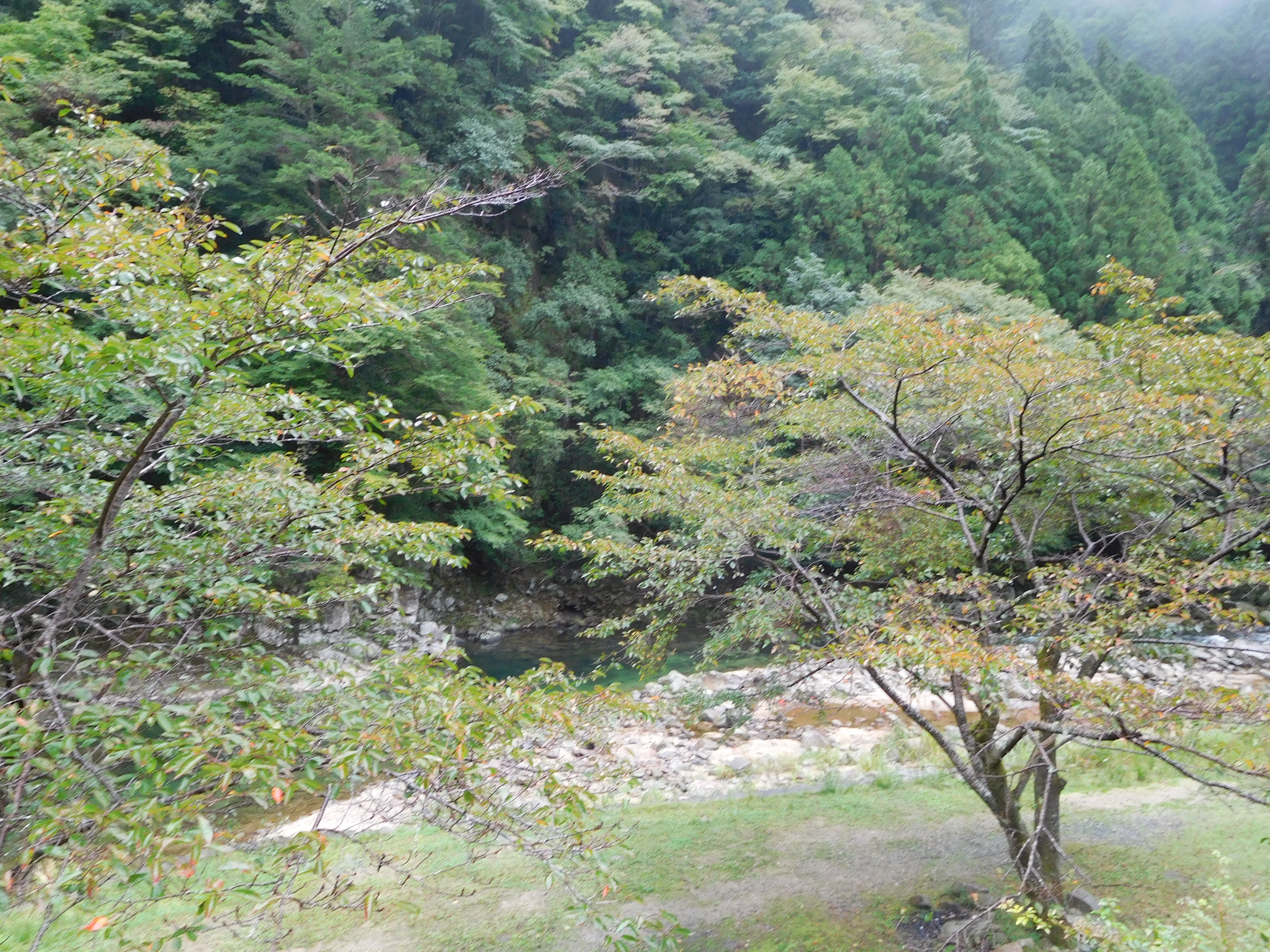 This is a landscape of Momiji valley in Kaochidani, Nabari, Mie, Japan.